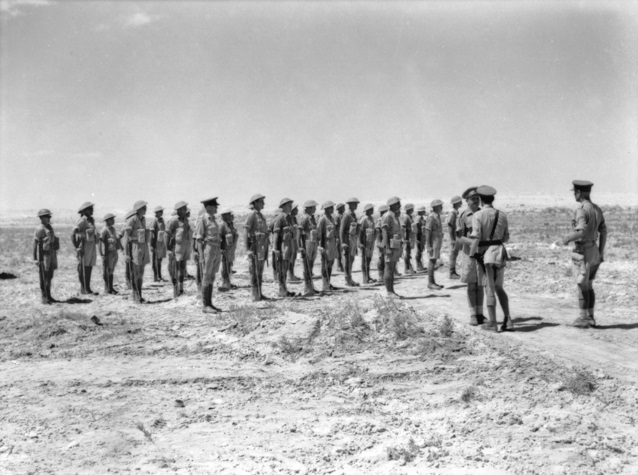 General Harold Alexander inspects troops from the Australian 2/13th and 2/15th Infantry Battalions, 21 August 1942, along with the commander of the Australian 20th Brigade, Brigadier Victor Windeyer.